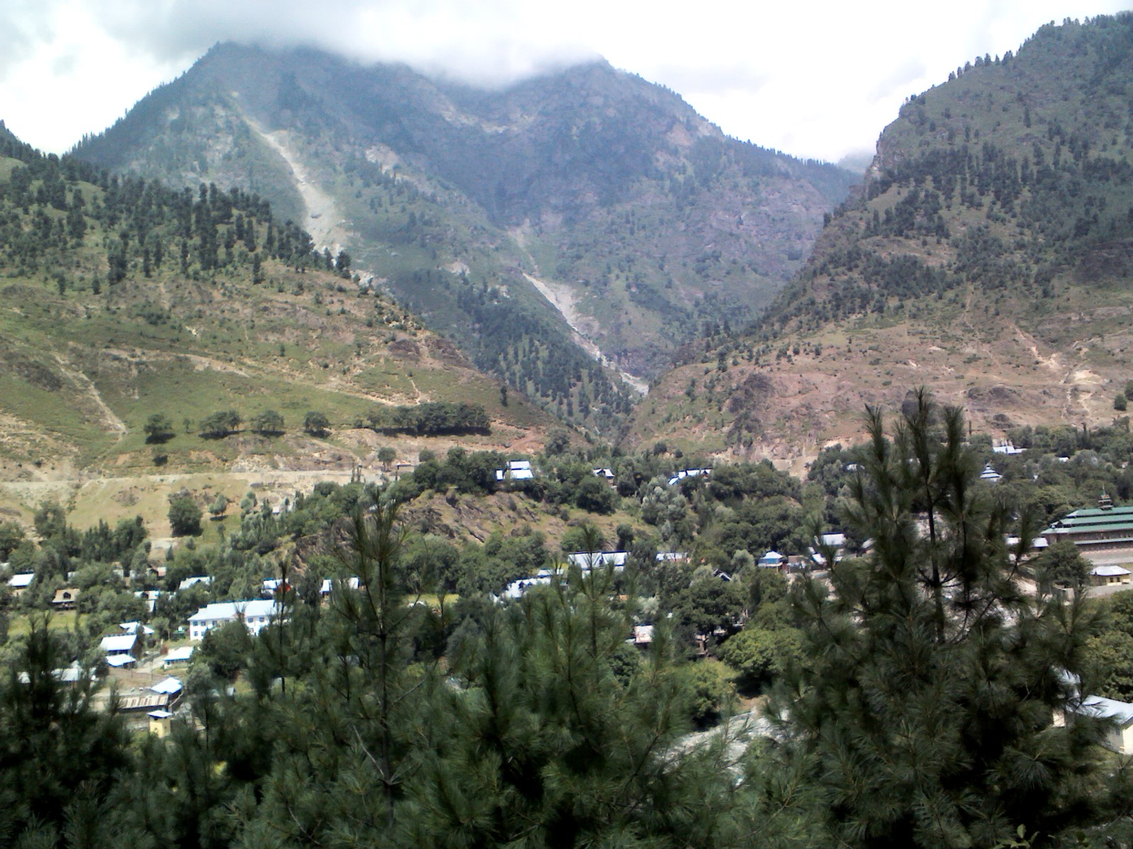 A village in district Ganderbal on NH 1D Srinagar Sonamarg road.